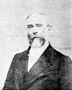 Atanasio Aguirre, Uruguayan politician.